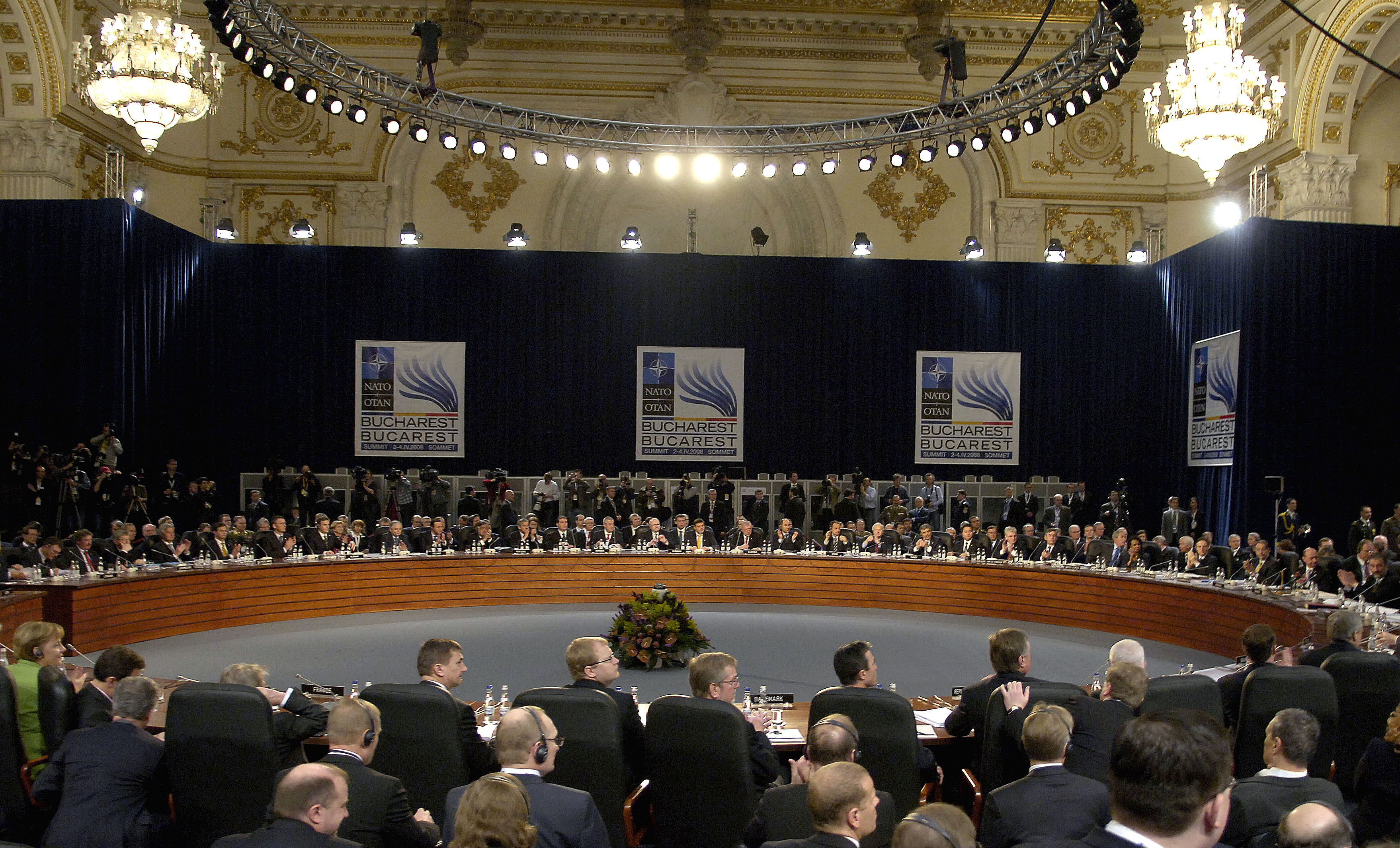 NATO defense ministers and other world leaders gather in Bucharest, Romania, for a three-day summit to discuss new additions to NATO and its role in Afghanistan, April 3, 2008.